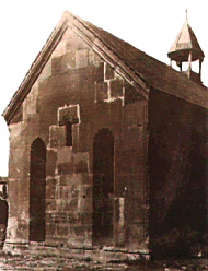 Gethsemane chapel in Yerevan in 1901, used to stand in the place that currently occupied by the Armenian Opera Theater.